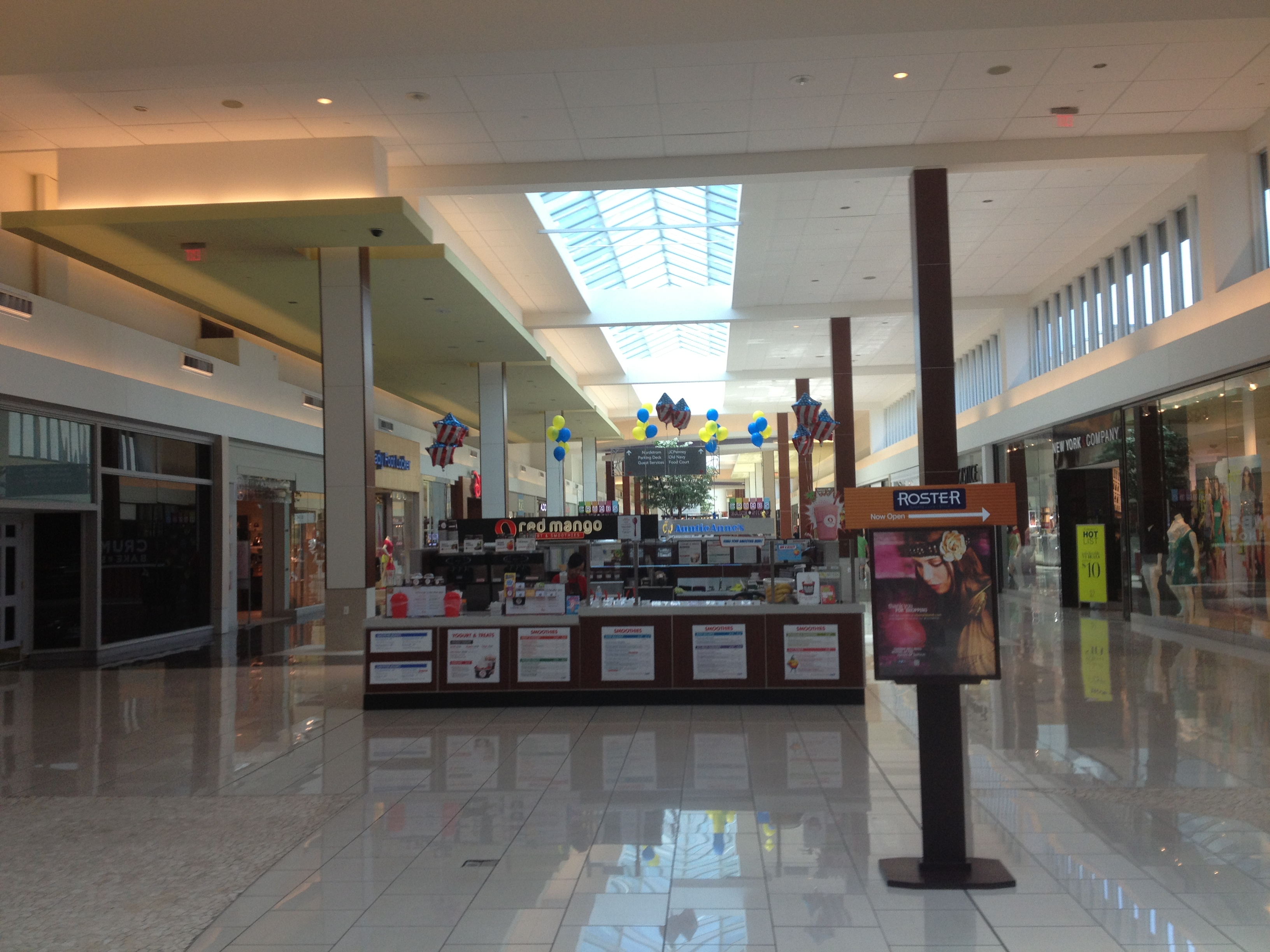 A view of the Cherry Hill Mall in Cherry Hill, New Jersey from Macy's